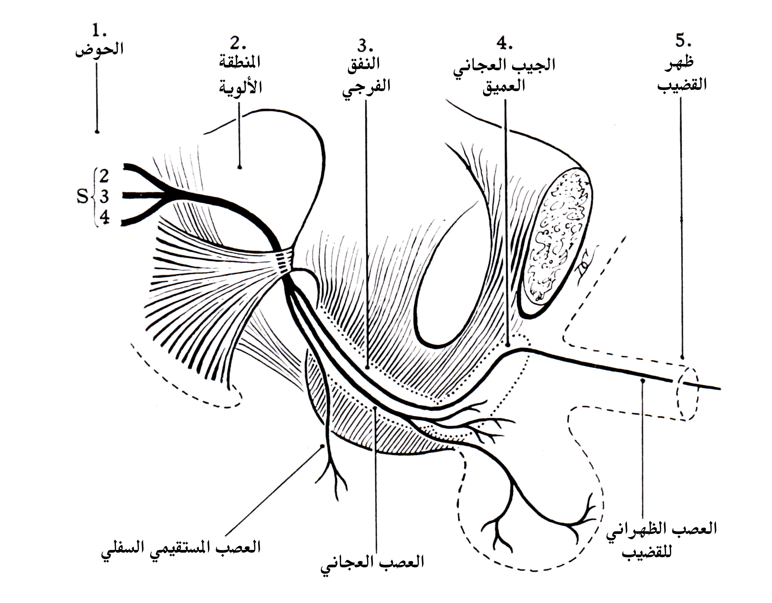 An anatomical illustration from An atlas of anatomy/by regions 1962